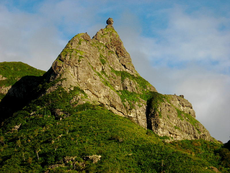 The majestic Pieter Both mountain in Mauritius